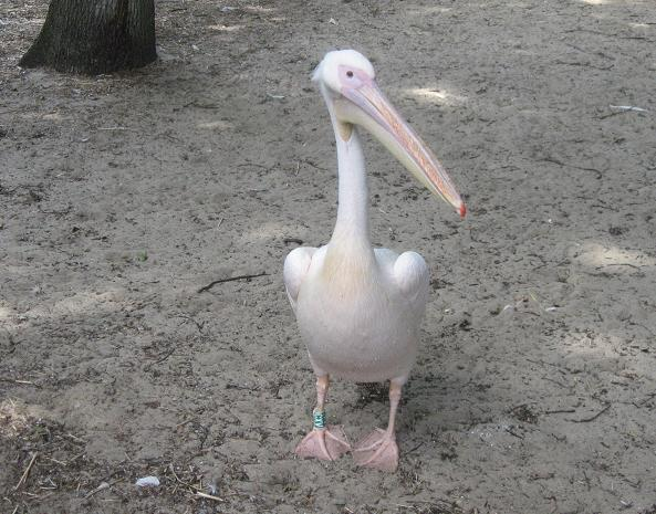 Great White Pelican in Ouwehands Dierenpark